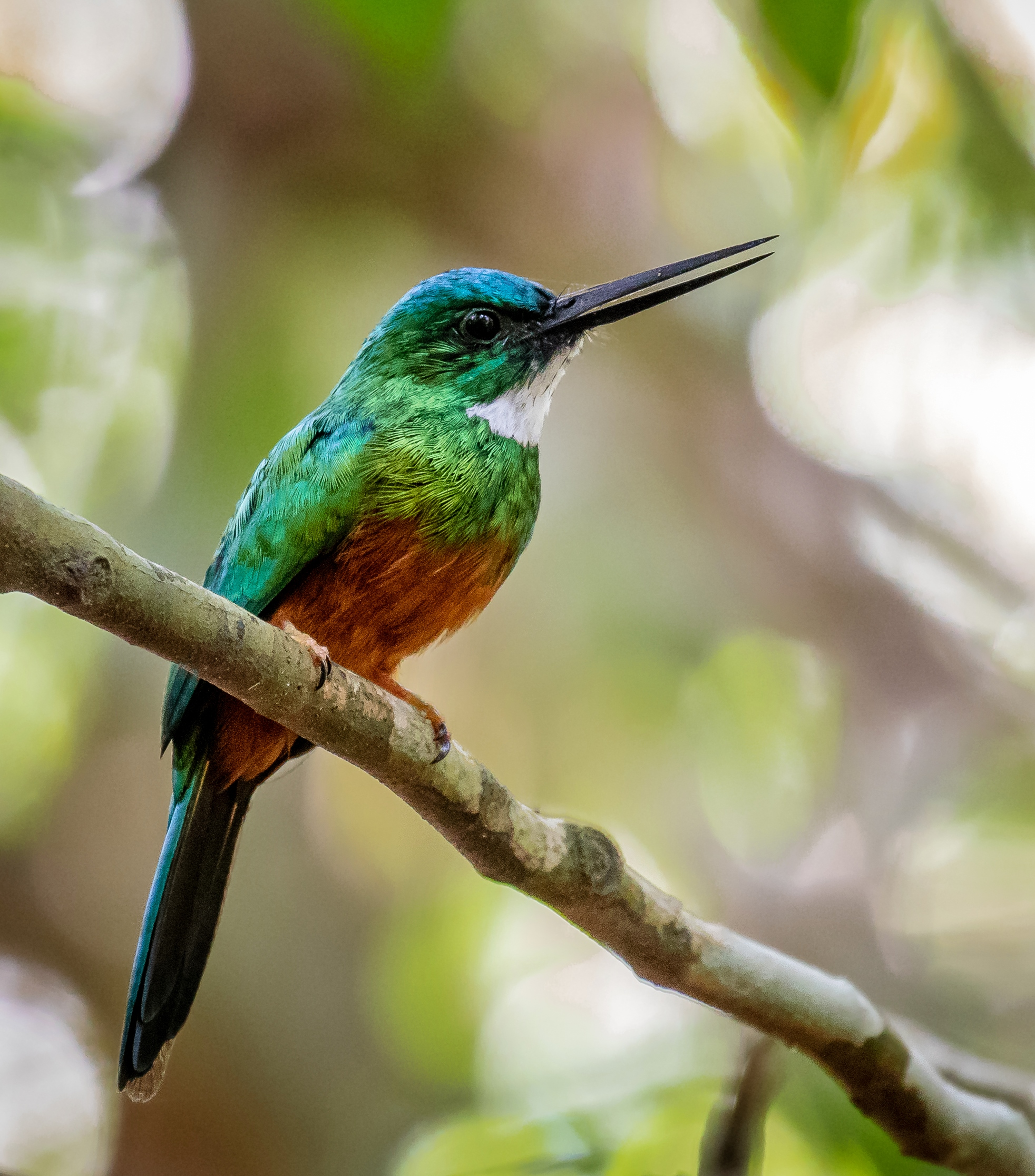 Green-tailed Jacamar (male); Anavilhanas islands, Novo Airão, Amazonas, Brazil